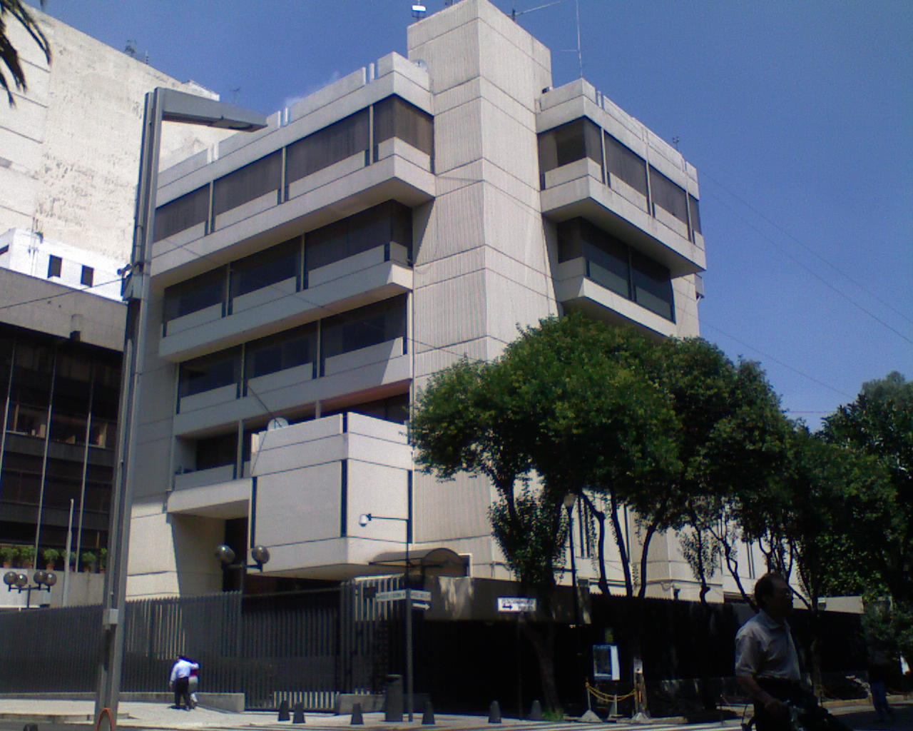 Embassy of Japan in Mexico City, located before November 2015